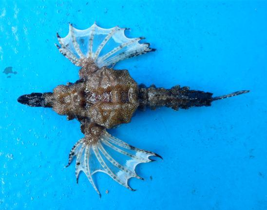 Eurypegasus draconis, Indonesia. Tayando islands, southeasth Moluccas, 28 Okt 2011